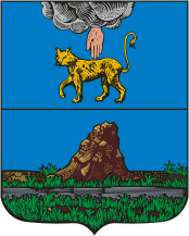 Kholm (Novgorod oblast), coat of arms (1781)